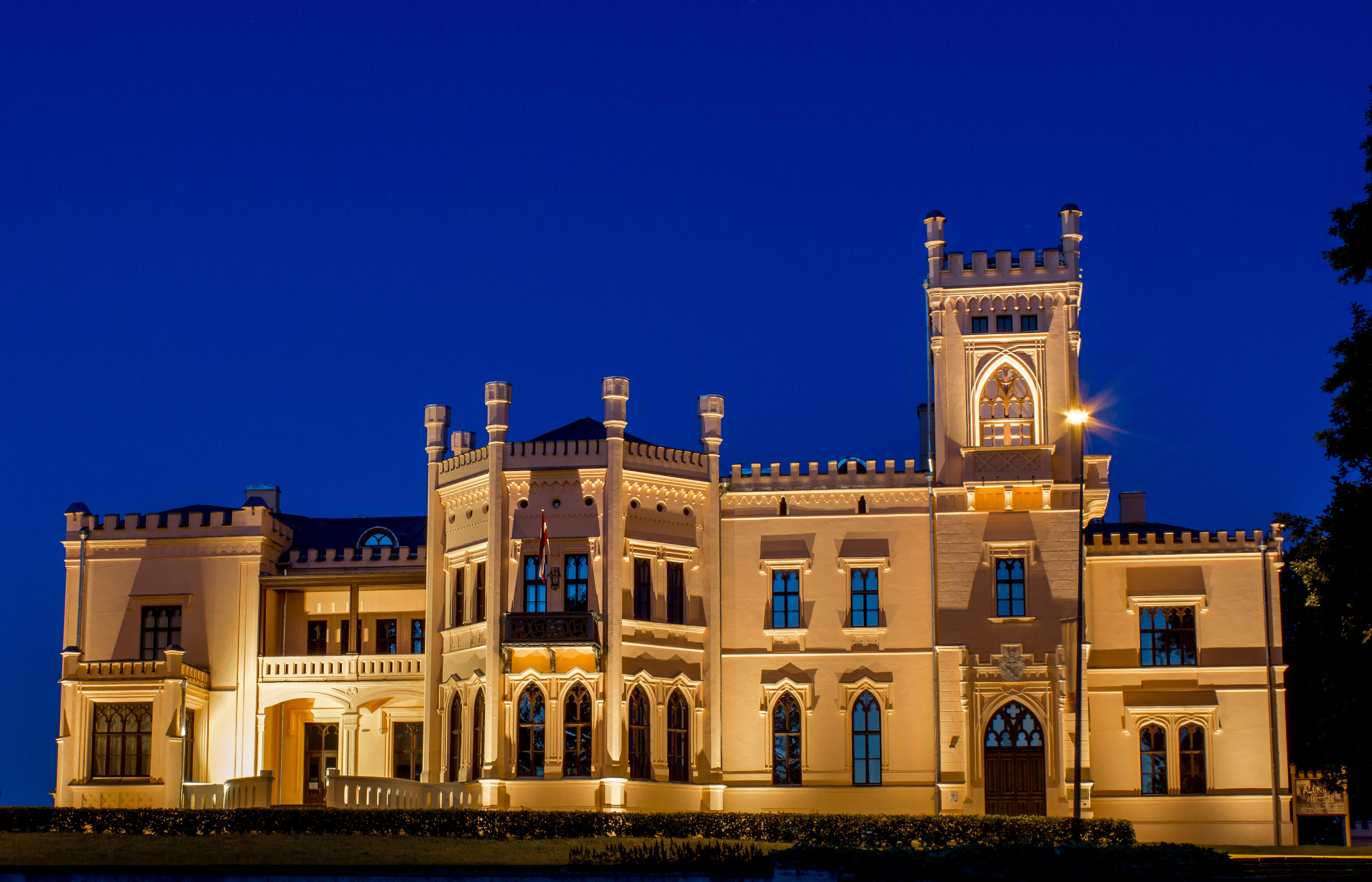 Celta Tjūdoru neogotikas stilā no 1860. līdz 1864.gadam pēc barona Aleksandra fon Fītinghofa pasūtījuma. Alūksnes Jaunā pils ir viens no ievērojamākajiem vēlās Tjūdoru neogotikas arhitektūras pieminekļiem Latvijā. Fītinghofu dzimtai pils piederēja līdz pat 1920. gada agrārajai reformai. Šobrīd pilī atrodas Alūksnes muzejs un Dabas muzejs.